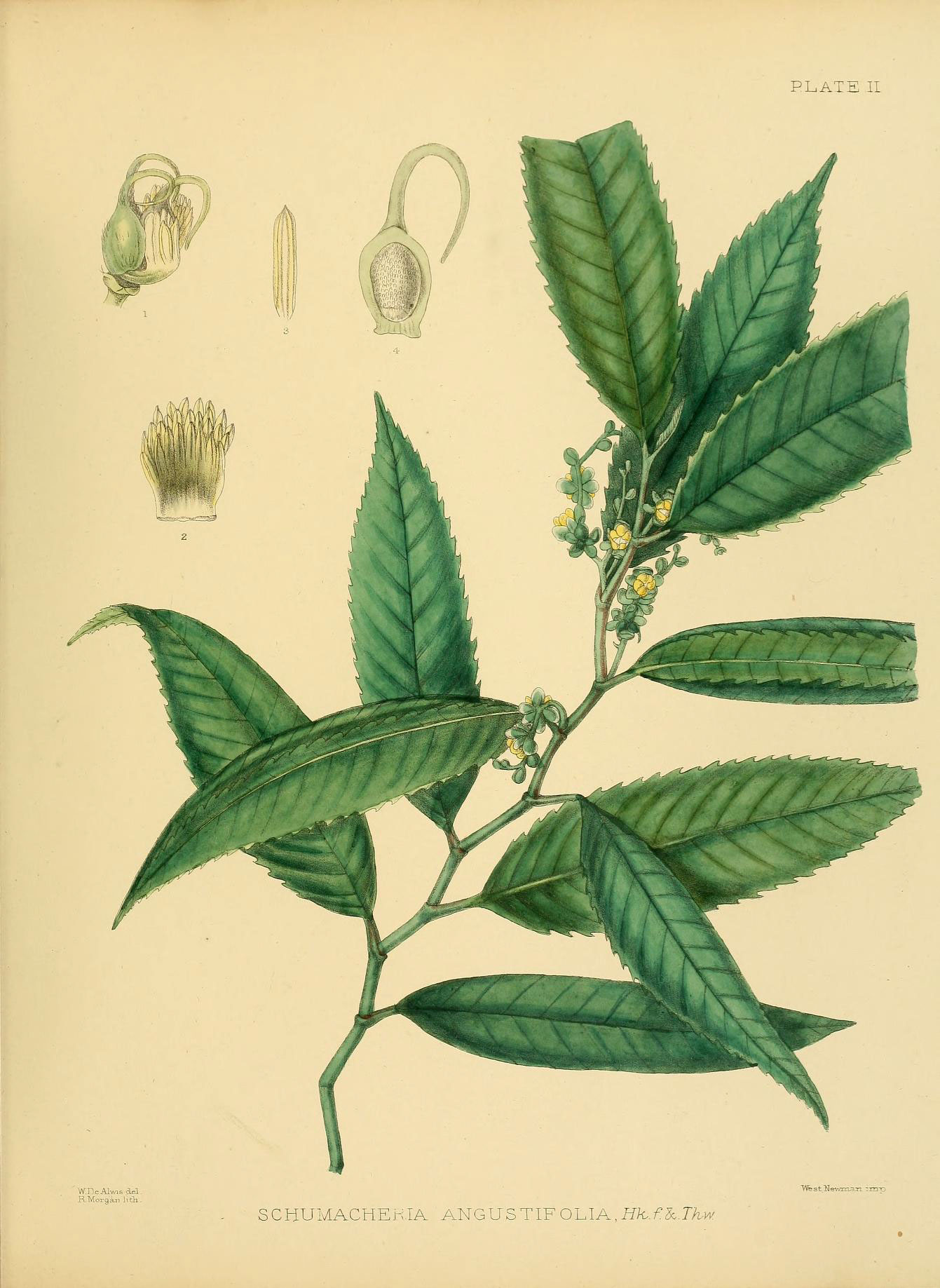 PLATE. II W.rieAlwis drl R Morgan lith. TfestMewmam iim SCHUMACHERIA ANGUSTIFOLIA,ff/t/&.77iw